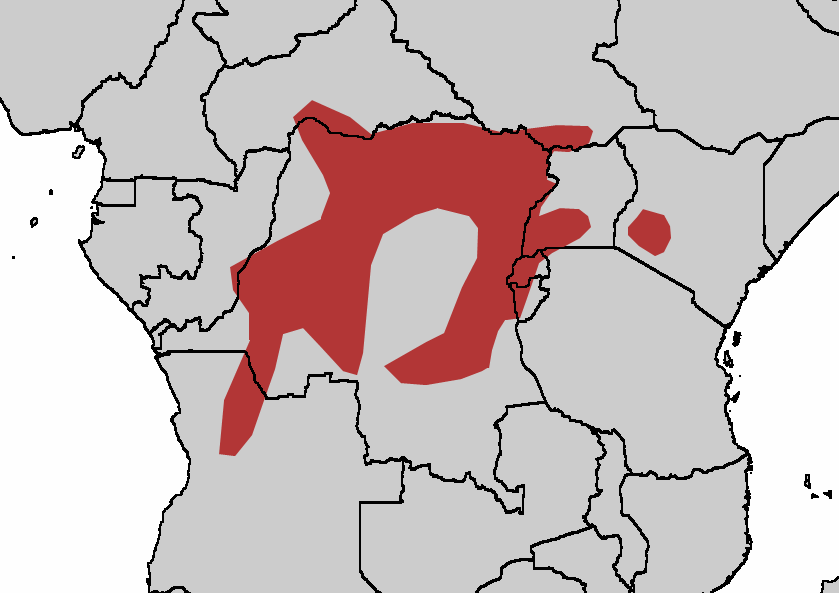 The Black-billed Turaco's Distrobution.